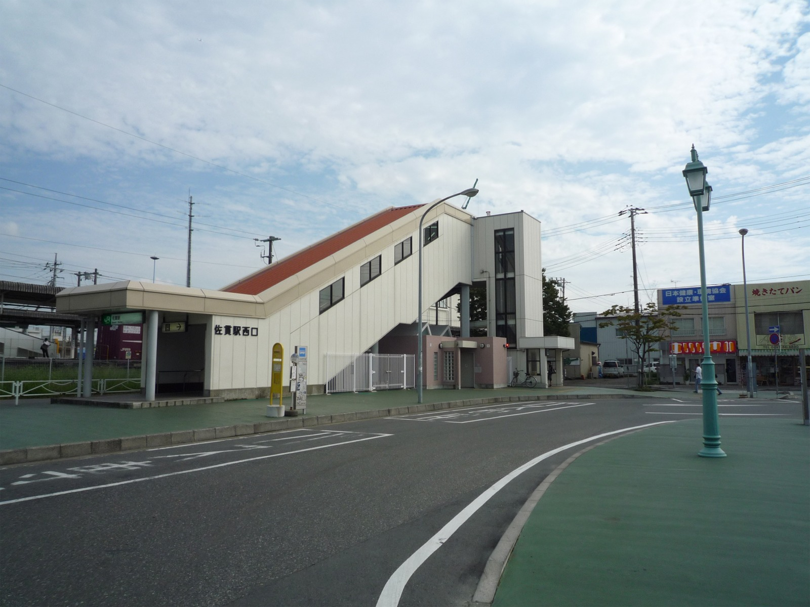 Sanuki station West exit